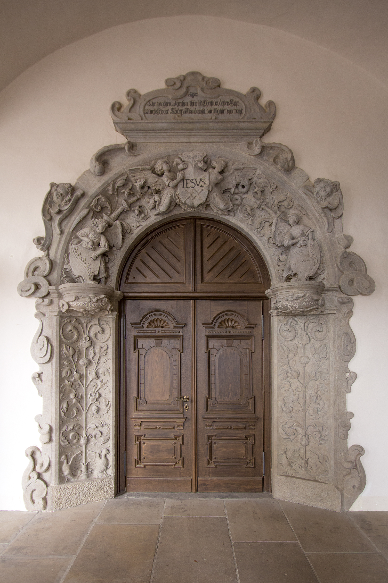 Gotha, Friedenstein Palace, entrance palace chapel (spoil of Grimmenstein Castle; sculptor Simon Schröter, 1553)